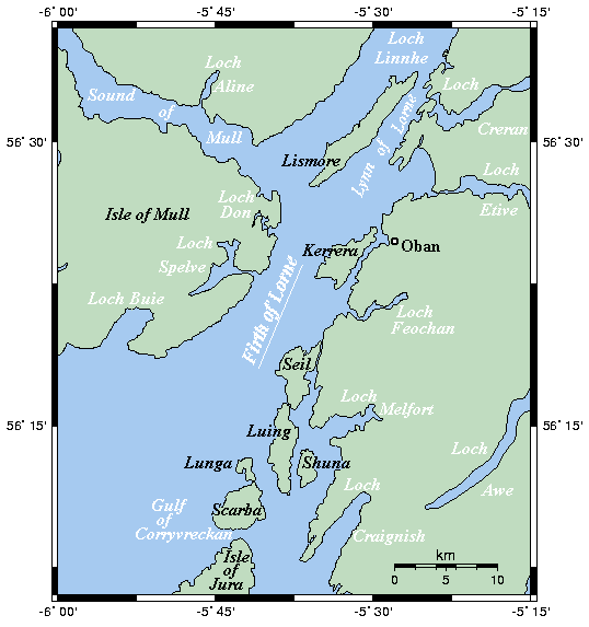 Map of the Firth of Lorn(e) and nearby waterways on Scotland's west coast. This map's source is here, with the uploader's modifications, and the GMT homepage says that the tools are released under the GNU General Public License.